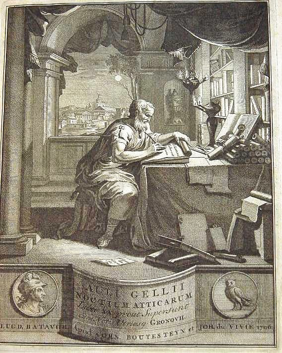 Frontispiece to the 1706 edition of Auli Gellii Noctium Atticarum (Aulus Gellius Attic Nights) libri xx. prout supersunt, quos ad libros Mss. novo et multo labore exegerunt, perpetuis notis et emendationibus illustrarunt Joannes Fridericus et Jacobus Gronovii.